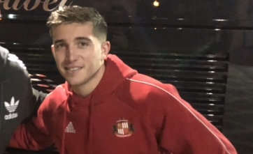 Photo taken by myself of Lynden Gooch following the Walsall Vs. Sunderland game on November 24 2018 at Bescot Stadium.